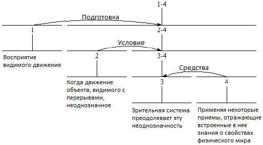 Diagram rst